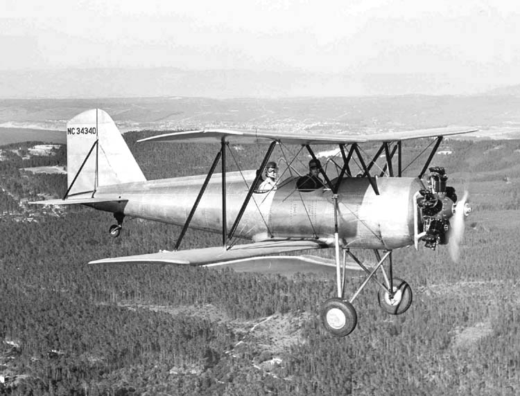 Meyers OTW near Monterey, California, in June 1947.